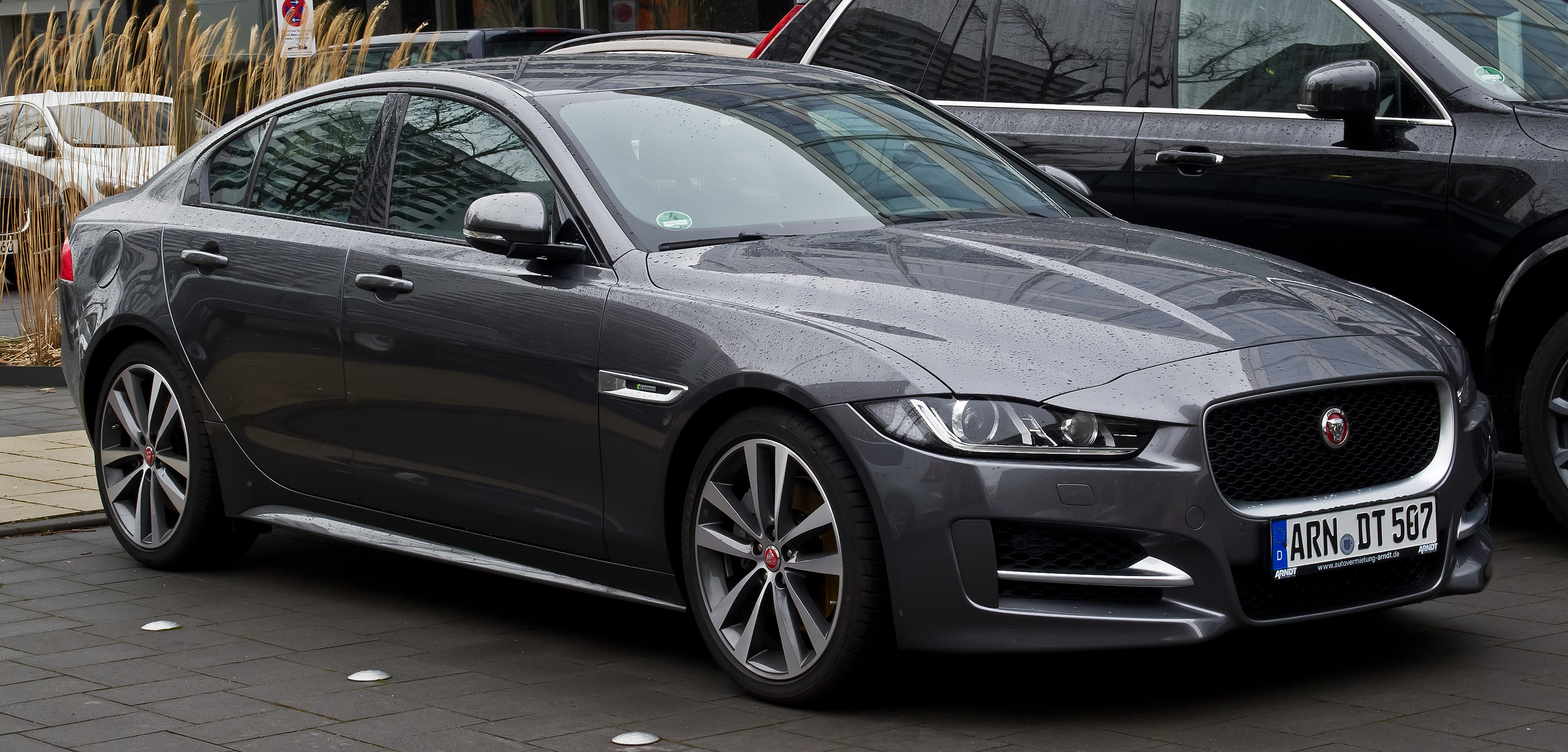 Jaguar XE 20t R-Sport